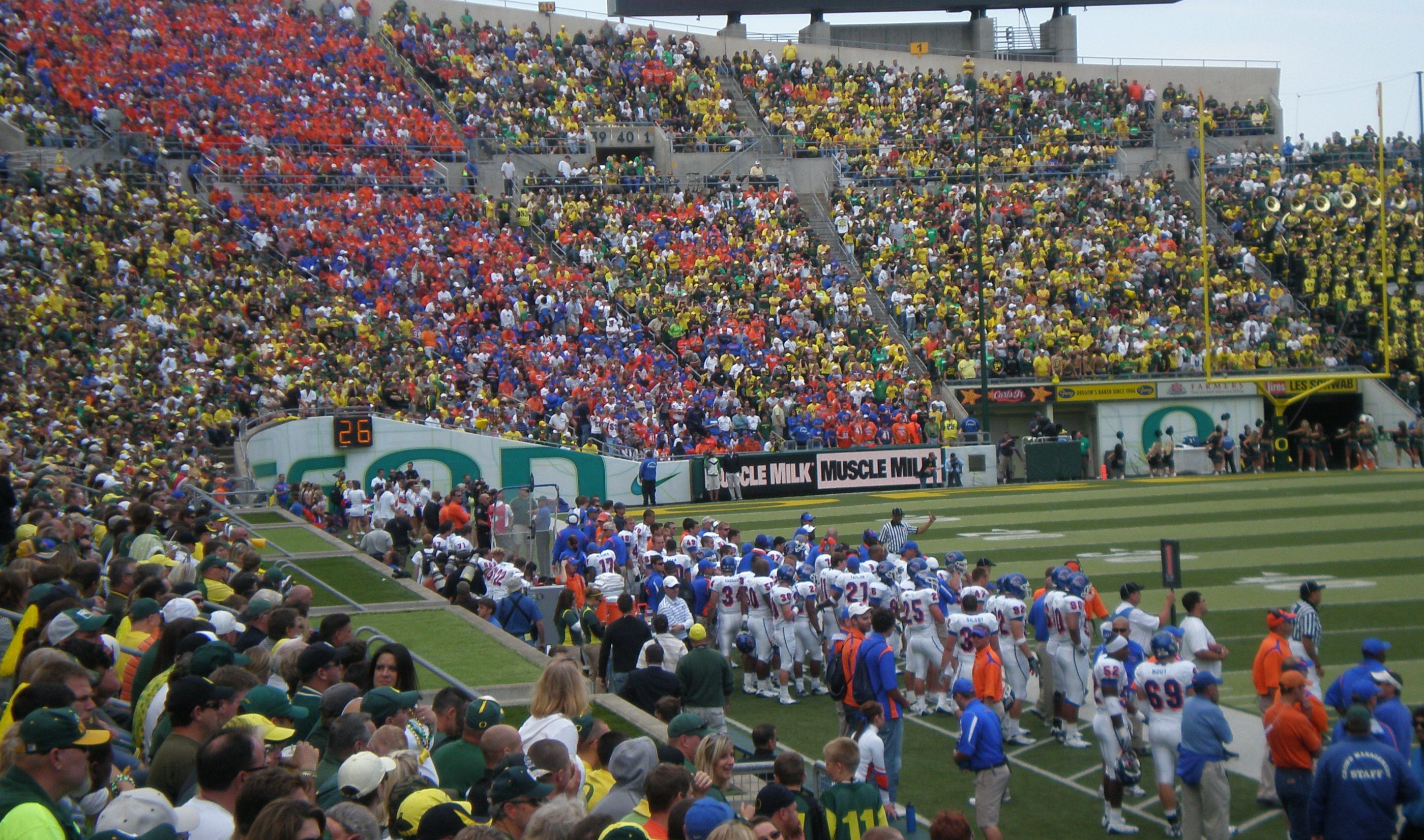 Boise State's sideline and cheering section during the first half of the Bronco's win over Oregon 37-32, 9/20/08